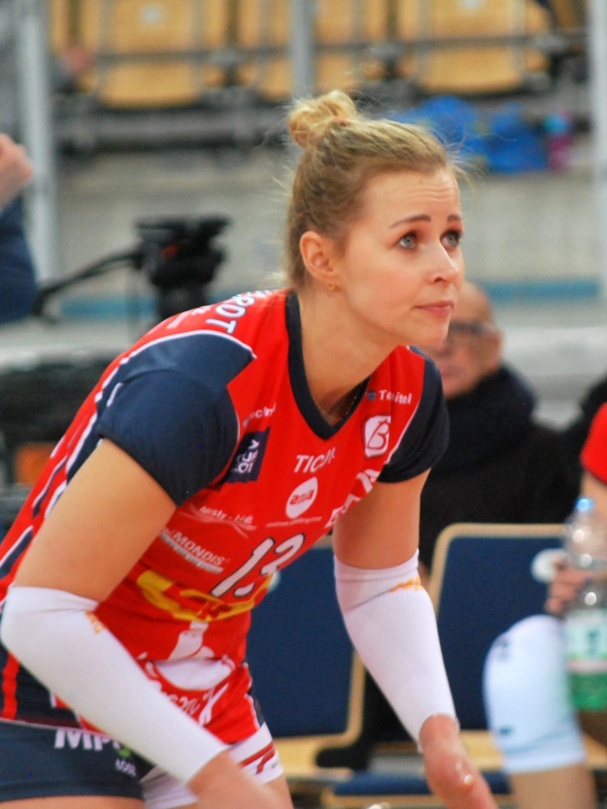 Paulina Maj-Erwardt, volleyball player from Poland